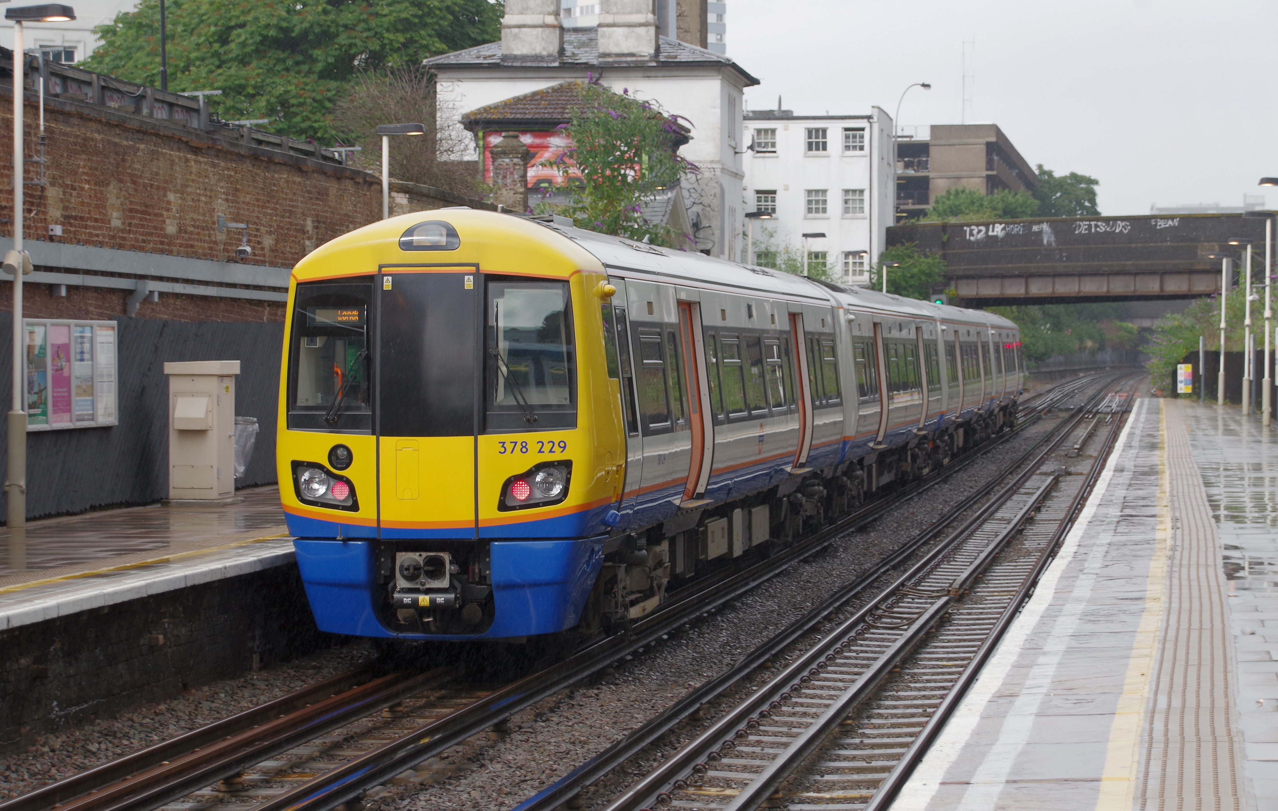 London Overground class 378 "Capitalstar" EMU 378229 departs Kilburn High Road railway station, working a Watford DC Line service from Watford Junction to London Euston.